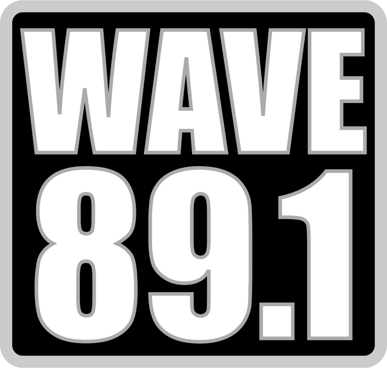 Logo of Wave 891 (2015)